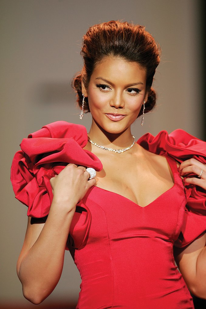 Zuleyka Rivera in the 2007 Red Dress Collection for the Heart Truth campaign